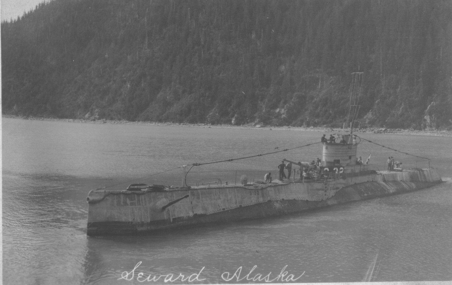 United States Navy submarine at Seward, Territory of Alaska.